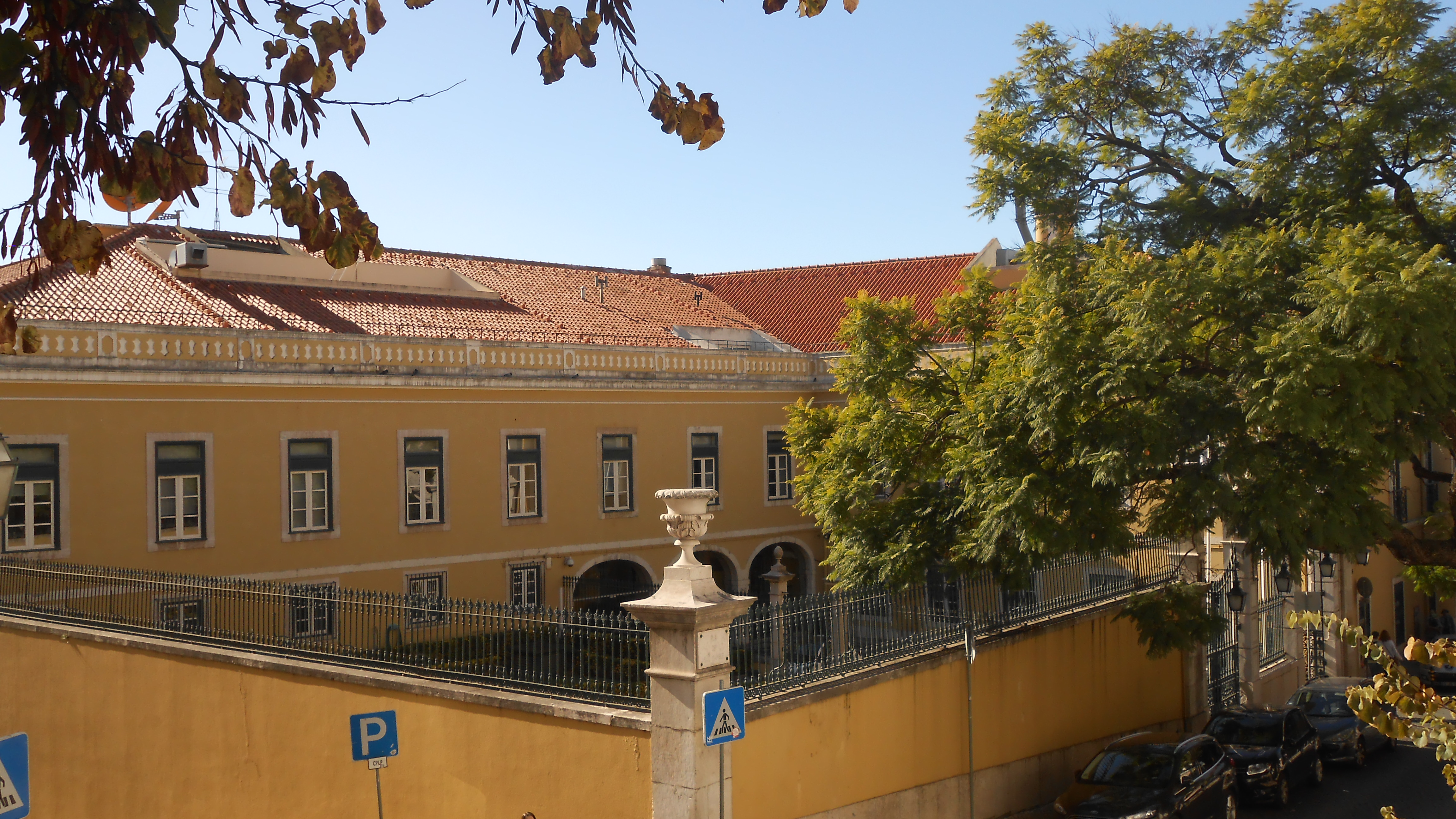 The Palácio Conde Penafiel in Lisbon, built in the early 17th century, became the headquarter of the Community of Portuguese Language Countries (Comunidade dos Países de Língua Portuguesa, CPLP) in 2011.